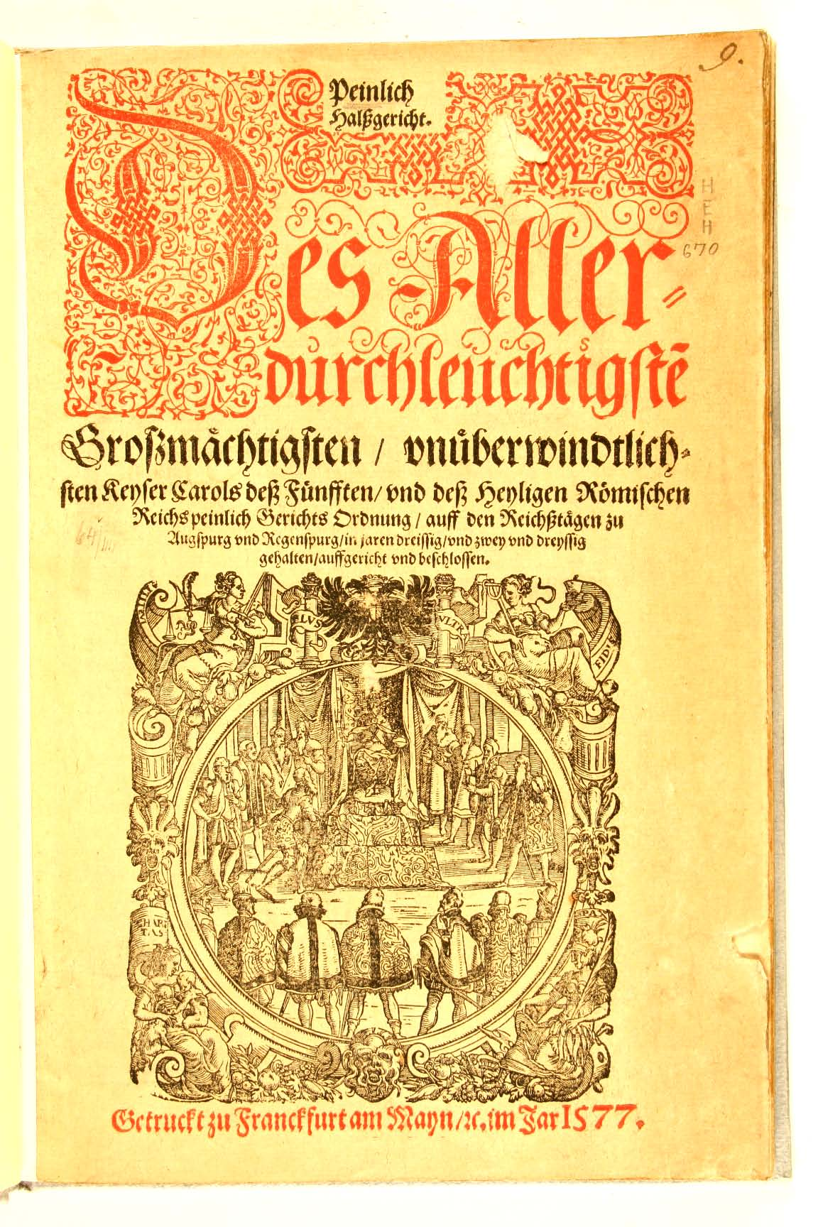 This is a scan of the historical document